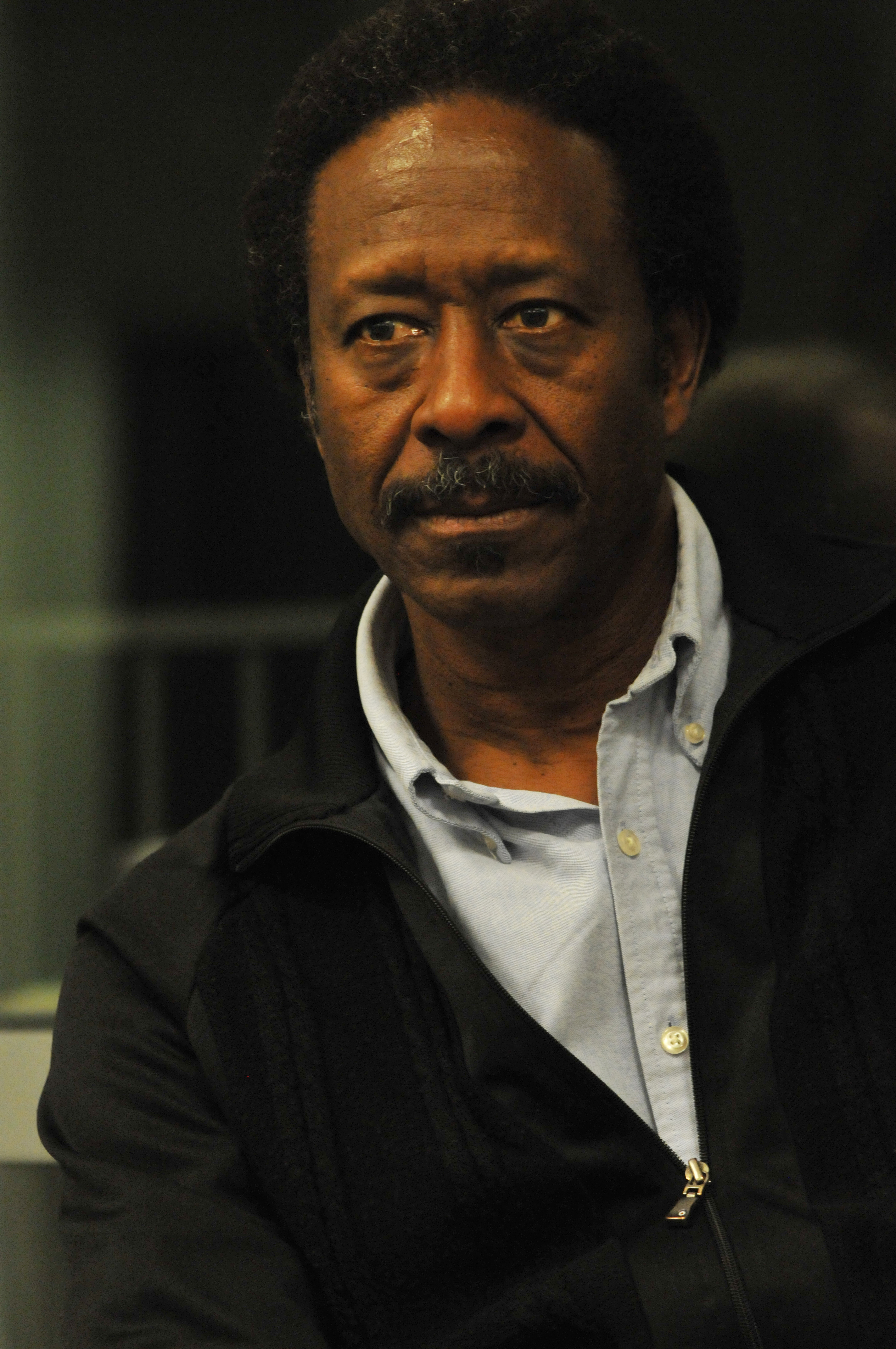 "Treme" co-creators and executive producers David Simon and Eric Overmyer, actor Clarke Peters (HBO's "The Wire," "The Corner," and Albert Lambeaux on "Treme"), Tulane University professors Beretta Smith-Shomade and Joel Dinerstein (event moderator) and New Orleans writer/poet Gian Smith. Hosted by Tulane professors Shayne Lee and Nghana Lewis. HBO, Tulane's African and African Diaspora Studies, Tulane Provost's Office and the New Orleans-Gulf South Research Center present a symposium with special guests from HBO's critically-acclaimed, original series, "Treme," and Tulane professors and community leaders. The event is free and open to the public with a reception to follow. Created by David Simon ("The Wire," "Generation Kill," "The Corner") and Eric Overmyer ("Homicide," "The Wire"), "Treme" follows musicians, chefs, Mardi Gras Indians and ordinary New Orleanians as they try to rebuild their lives, their homes and their unique culture in the aftermath of the 2005 hurricane and levee failure that caused the near-death of an American city. "Treme" is being used by some Tulane professors to enhance their curricula and provide students with a contemporary supplement that is a springboard for class discussion. October 28, 2010. Kendall Cram